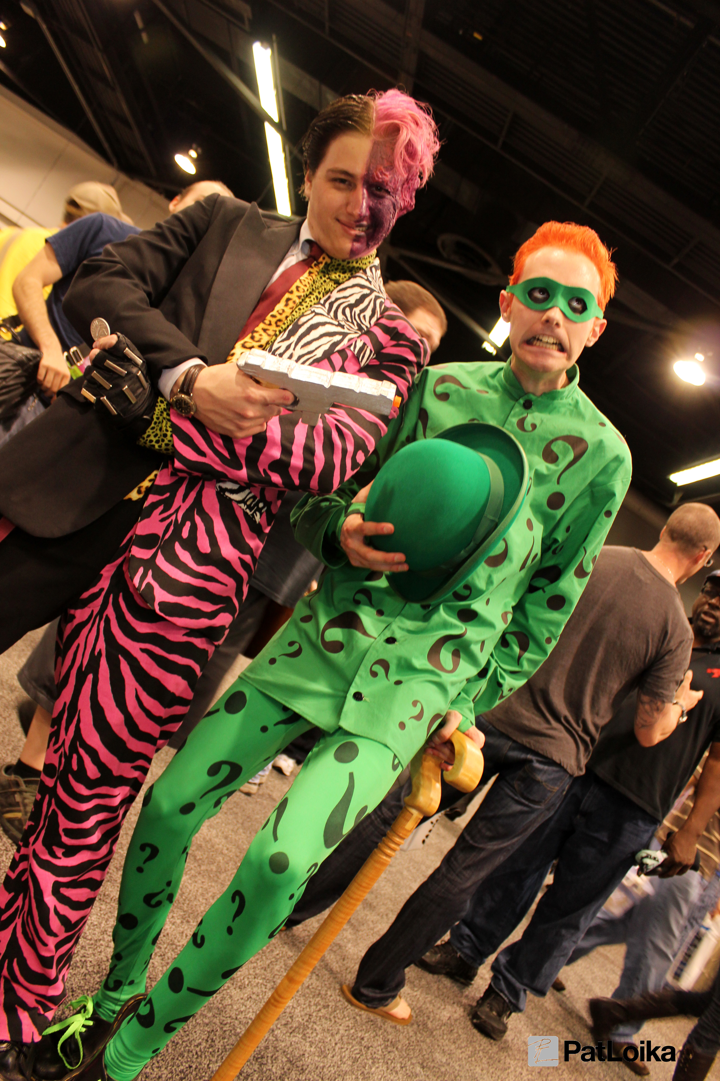 Cosplay of Two-Face and the Riddler at Wondercon 2013 in Anaheim